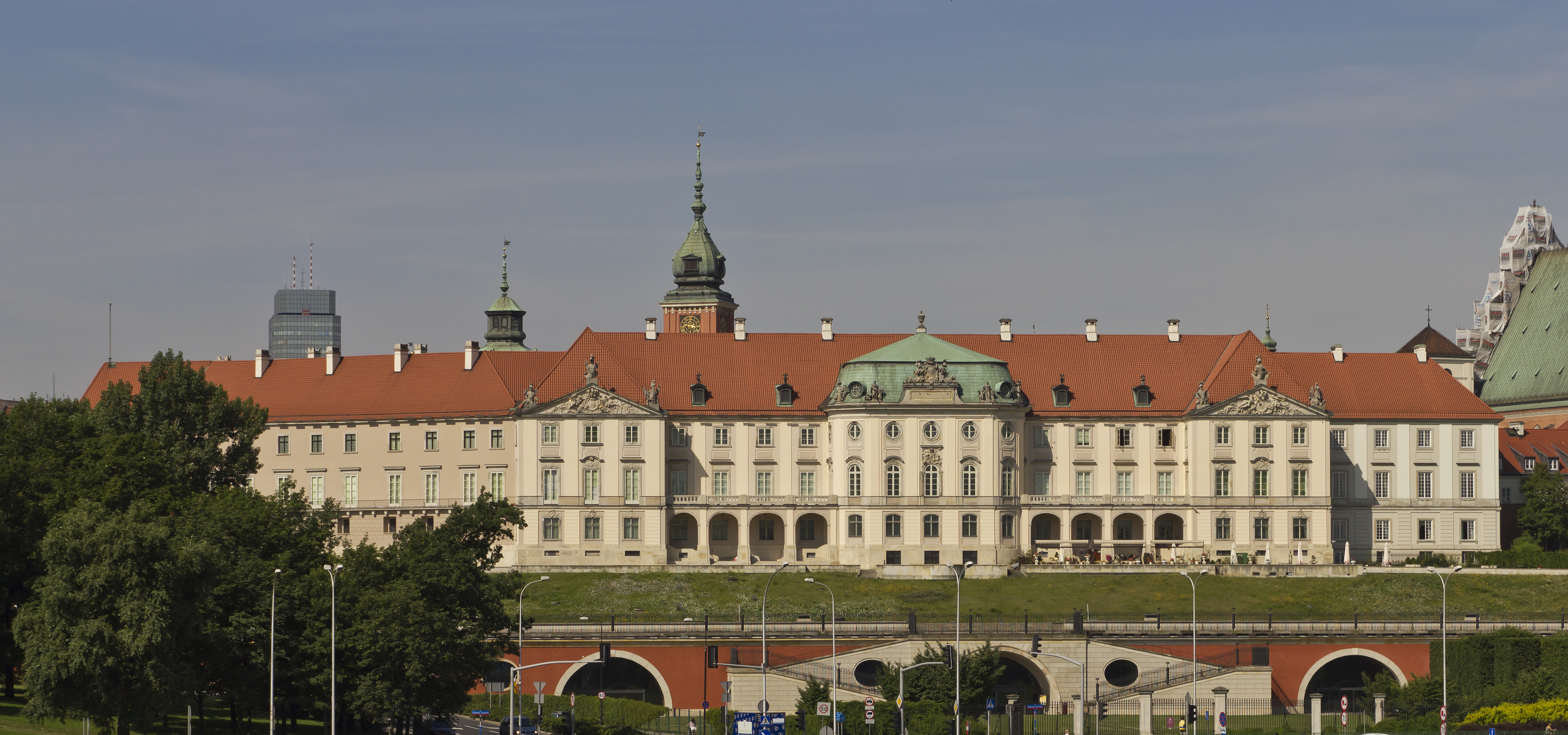 Royal Castle of Warsaw (Poland) as seen from Slasko-Dabrowski Bridge